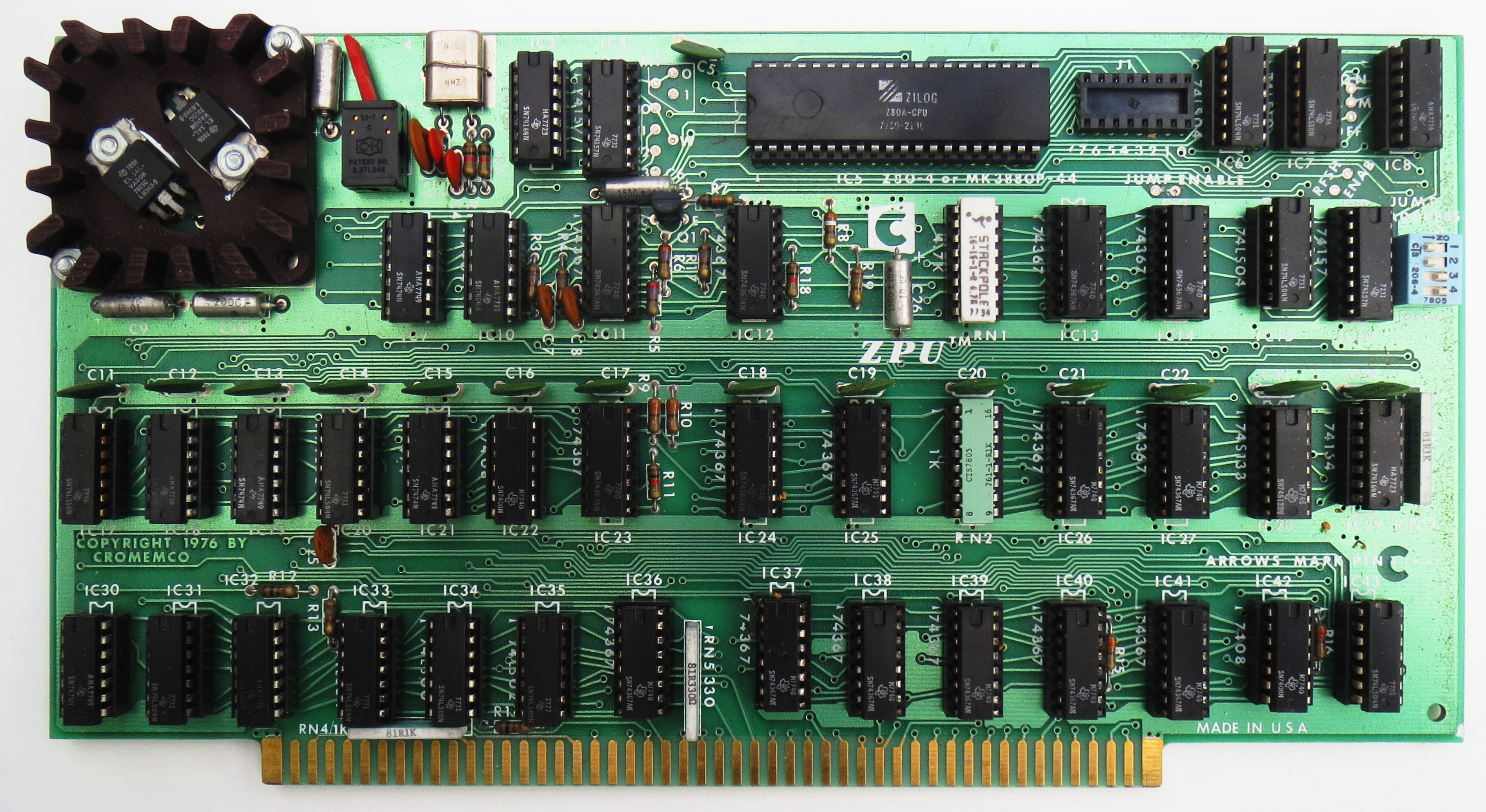 Picture Cromemco ZPU card (1976). First microcomputer CPU card to achieve 4 MHz speed. Switch on top of card could be used to switch between 2 MHz and 4 MHz speed. Used Zilog Z-80 processor.